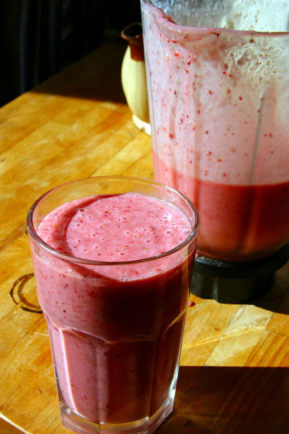 Fresh fruit and veg smoothie (made out of this)